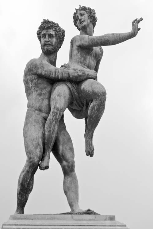 This copy of Vincenzo de'Rossi's "The Rape of Proserpina" is on a pedestal in The Ring of the Parterre faces the Garden Front of Cliveden House Author: Antony McCallum